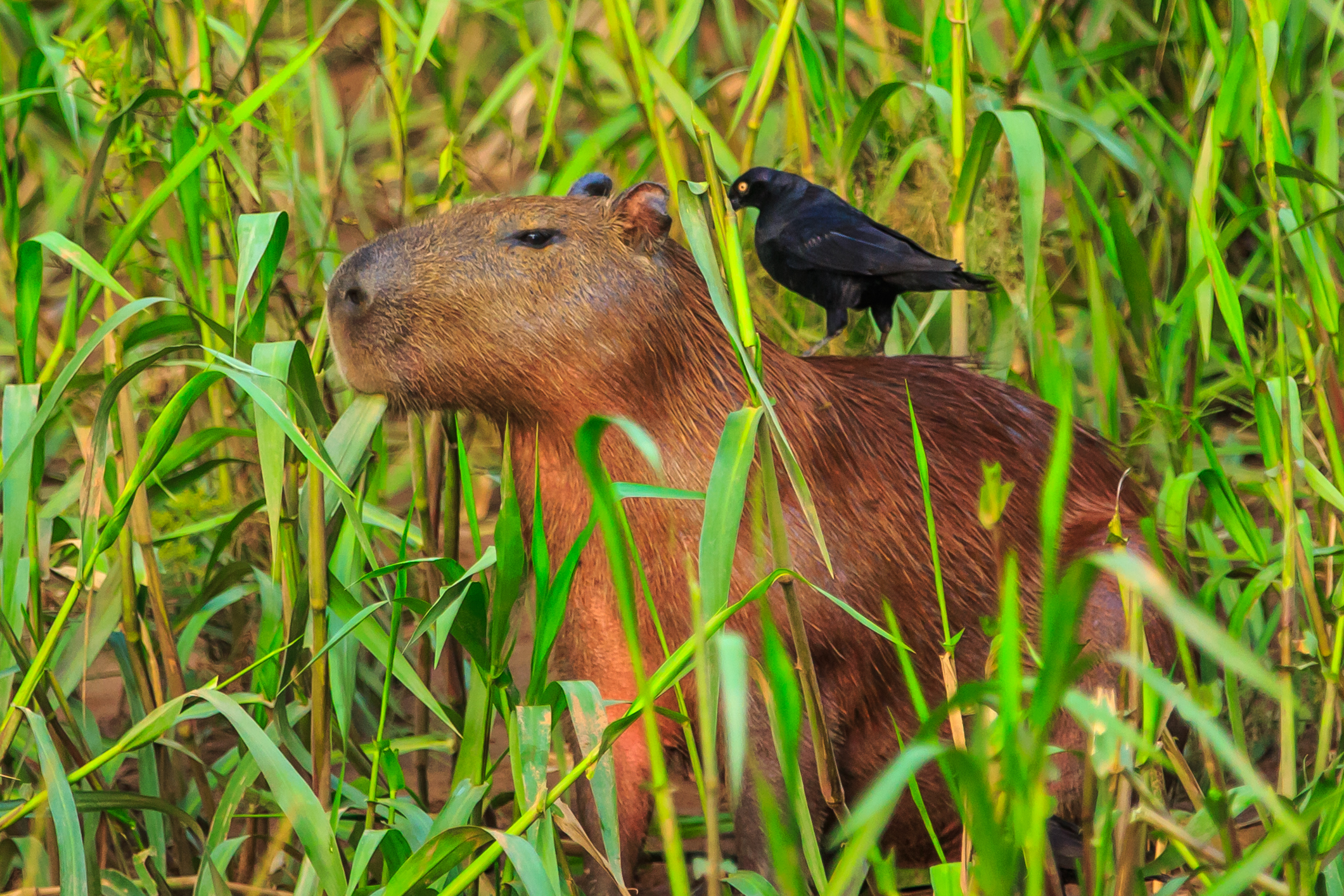 on the Rio Tambopata…Capybara